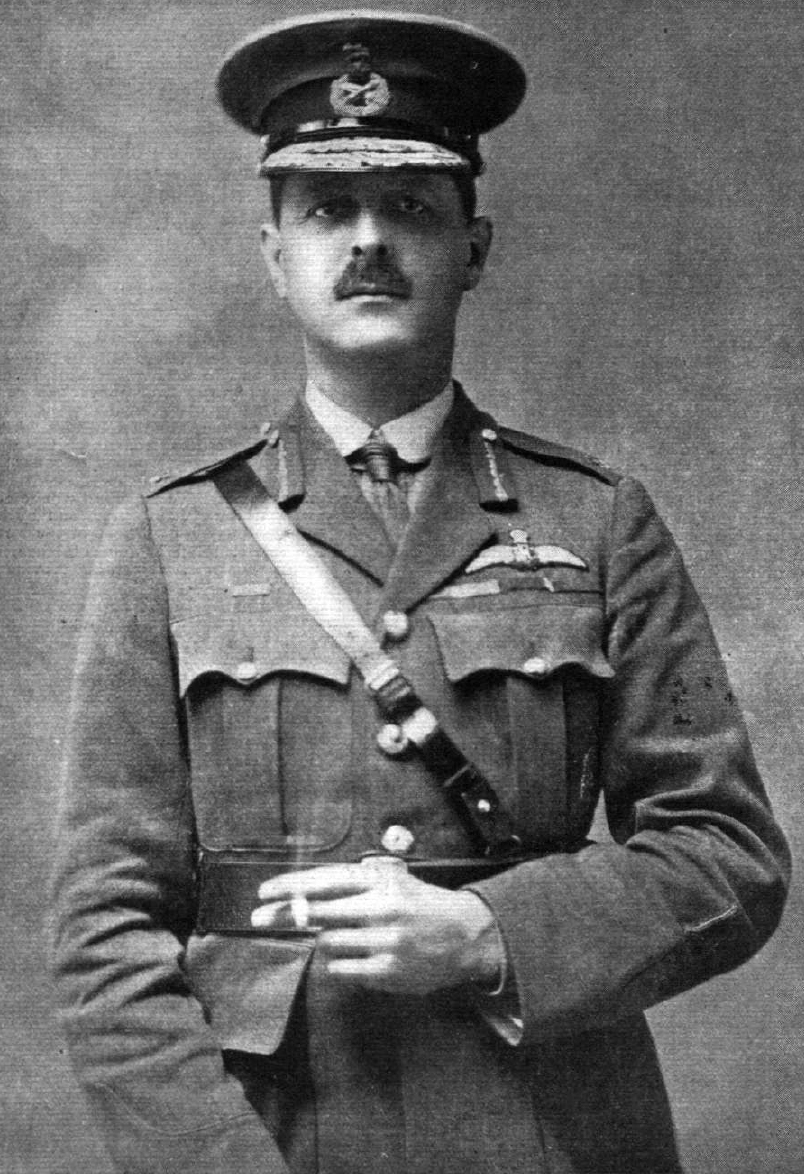 Brigadier-General L E O Charlton CB CMG DSO RAF just after his appointment as Air Attache at Washington.